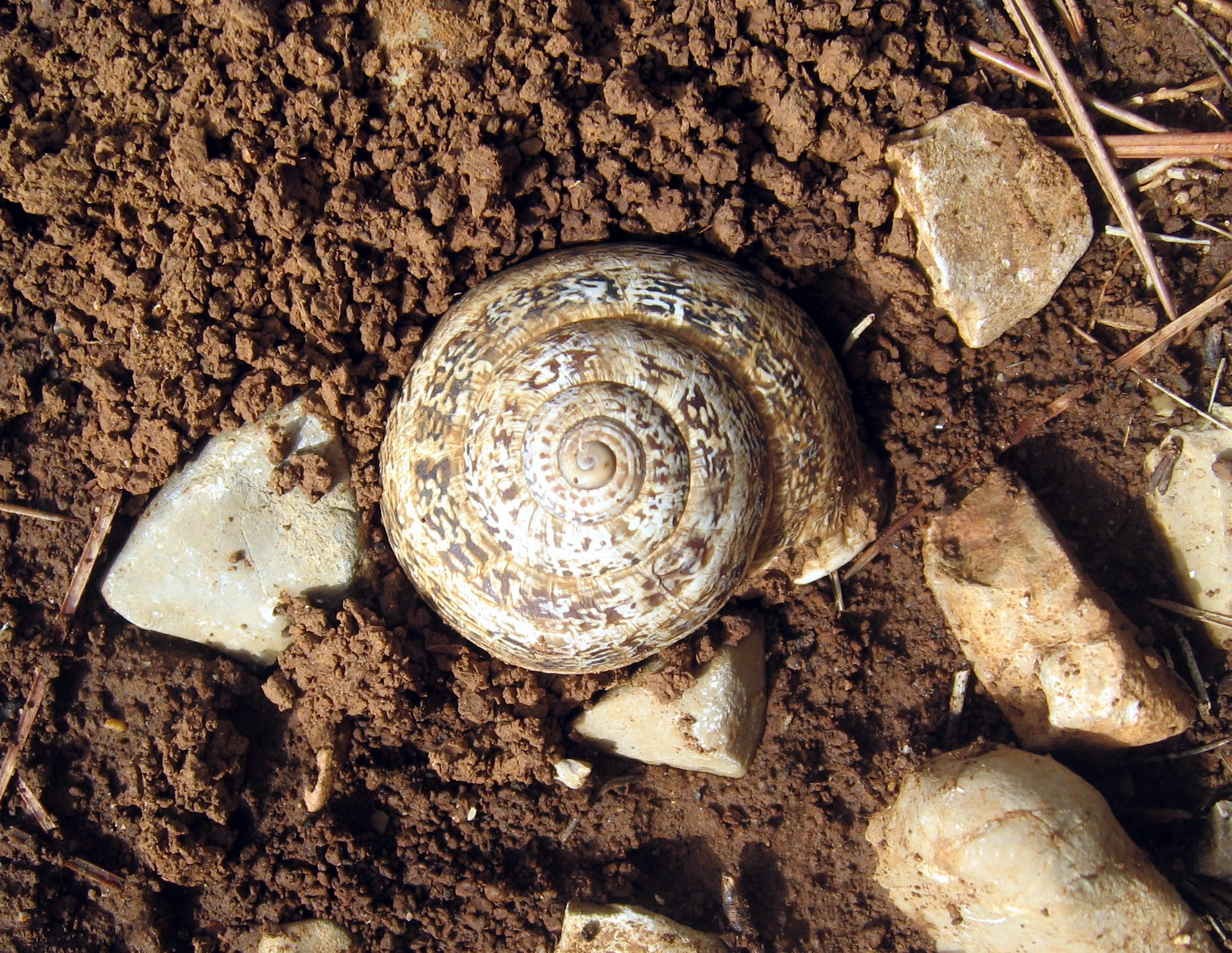 Eobania vermiculata, locality: Mallorca